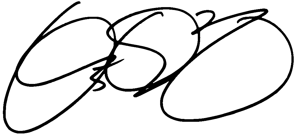 This graphic shows the signature of Park Bo-gum.